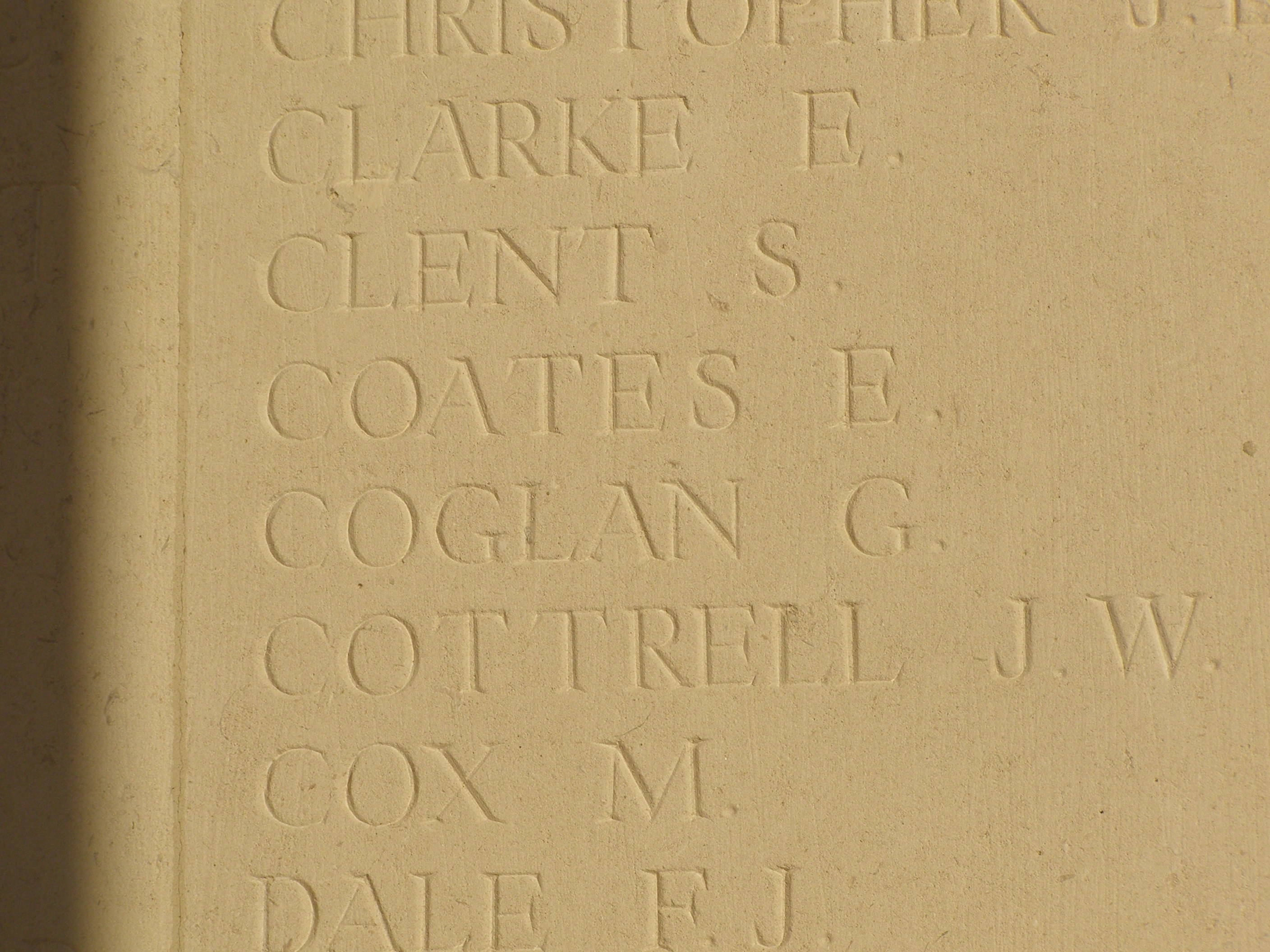 Vis en Artois Memorial at the Vis en Artois British Cemetery, France (Commonwealth War Graves Commission)- Detail from the list of the missing